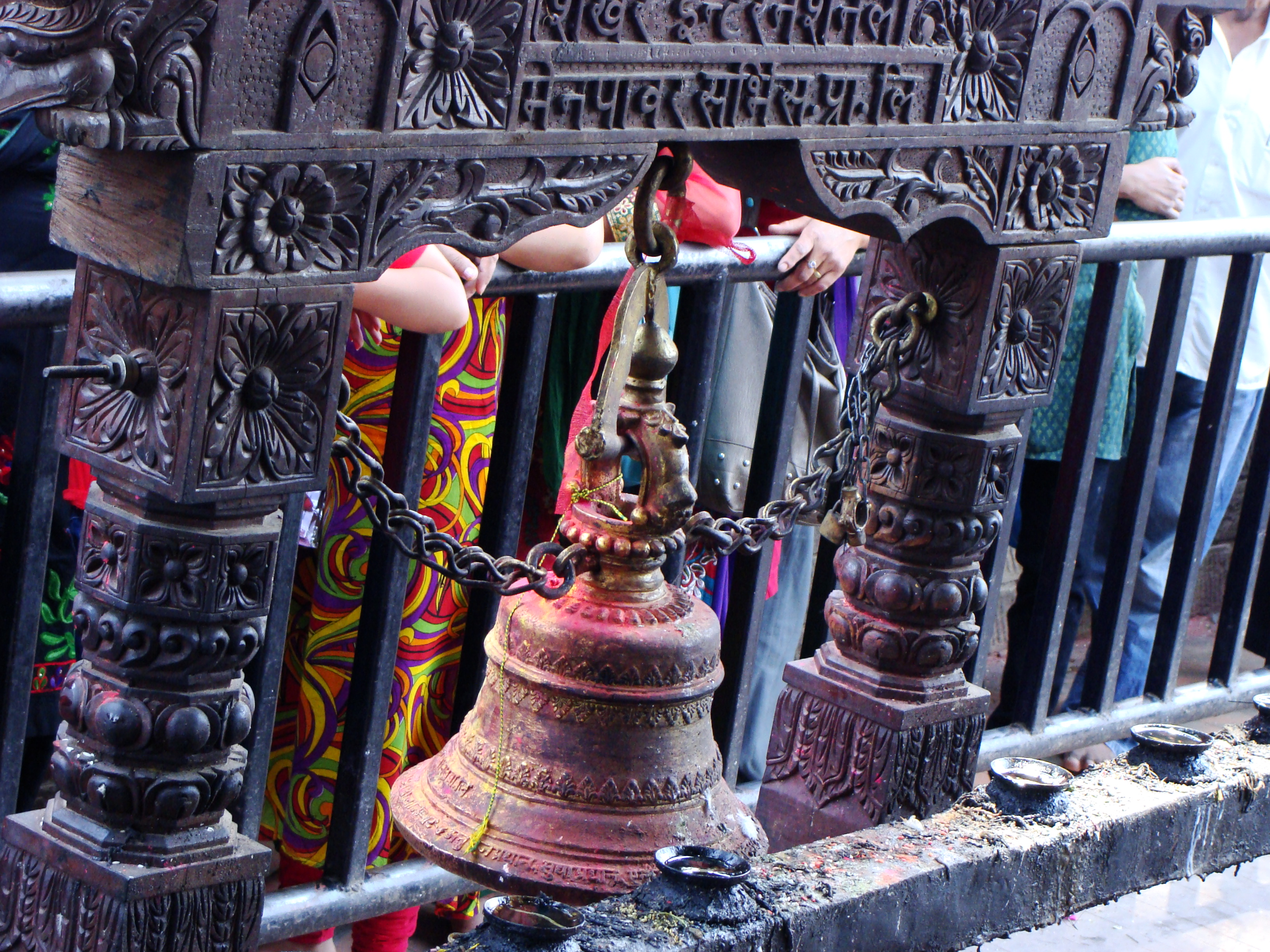 Historic Bell in the Manakamana temple.